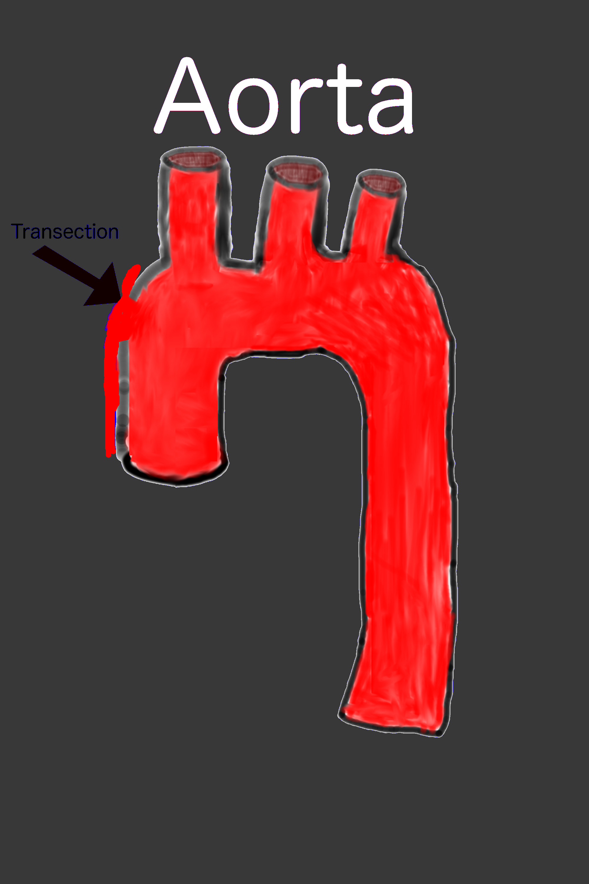 A diagram of an aortic rupture